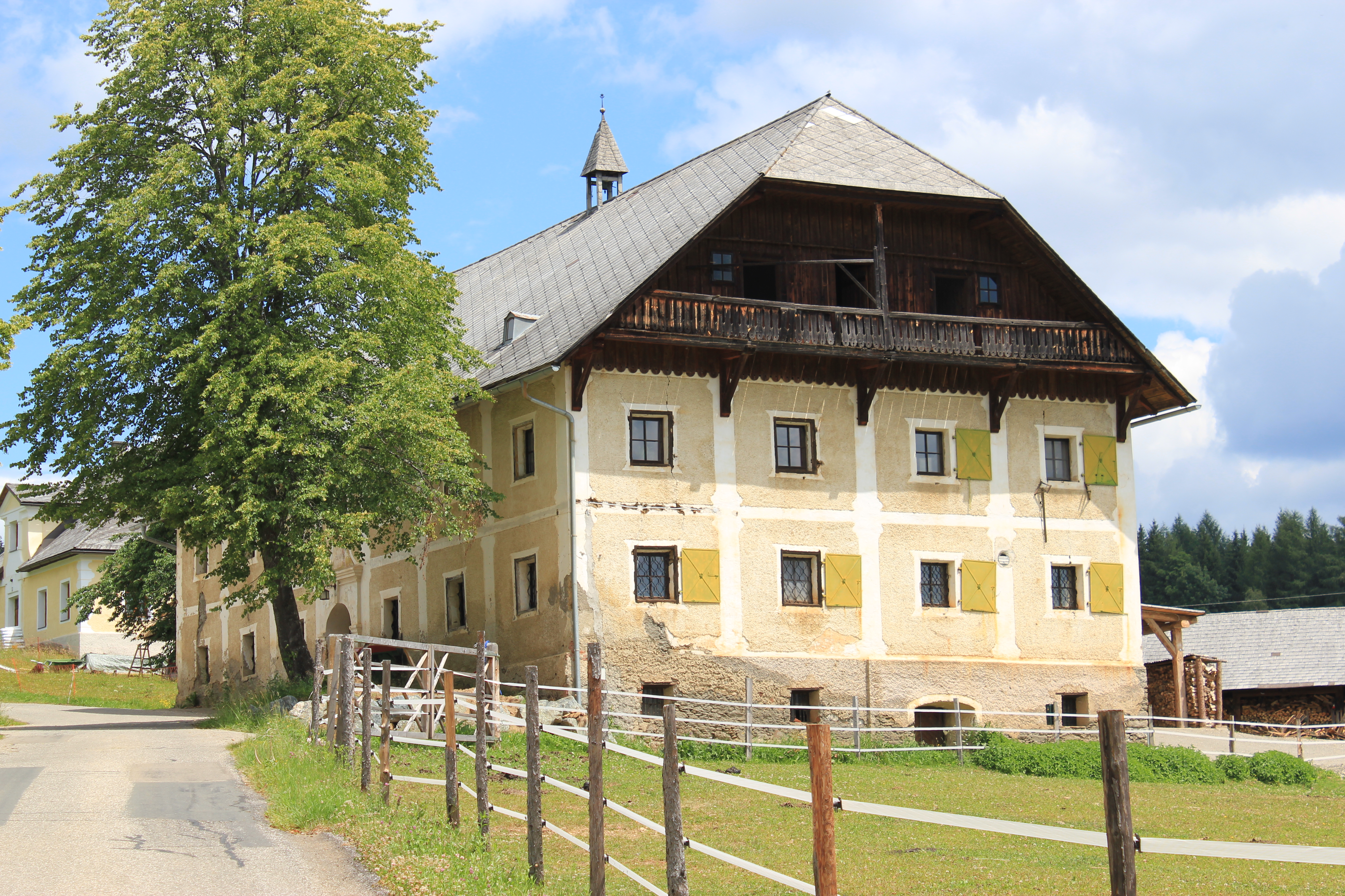 Farmstead Zechner (vulgo Jakober) at Sankt Jakob #6, municipality Straßburg